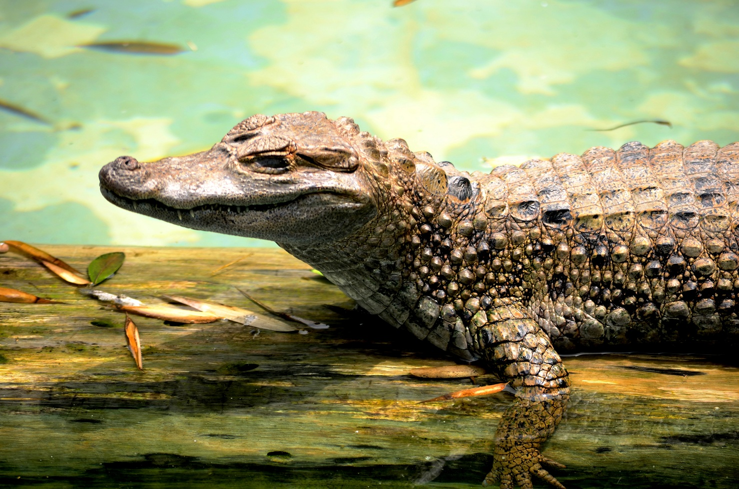 Caiman on a log, in "Parque de las Leyendas Zoo" in Lima-Perú